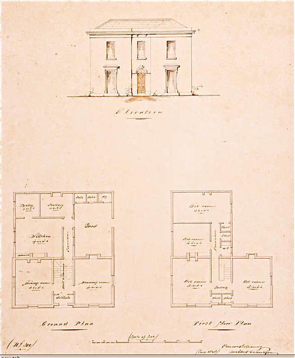 Gentleman’s Residence in Canwick for “Foster Esq’’. Architect’s drawing by Pearson Bellamy.